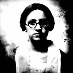 U.S. Passport application photo of Helen Hull Law from 1922